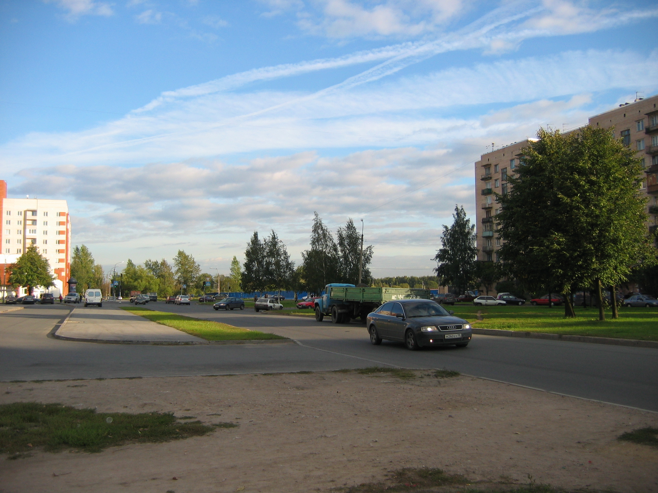 Vernosti street